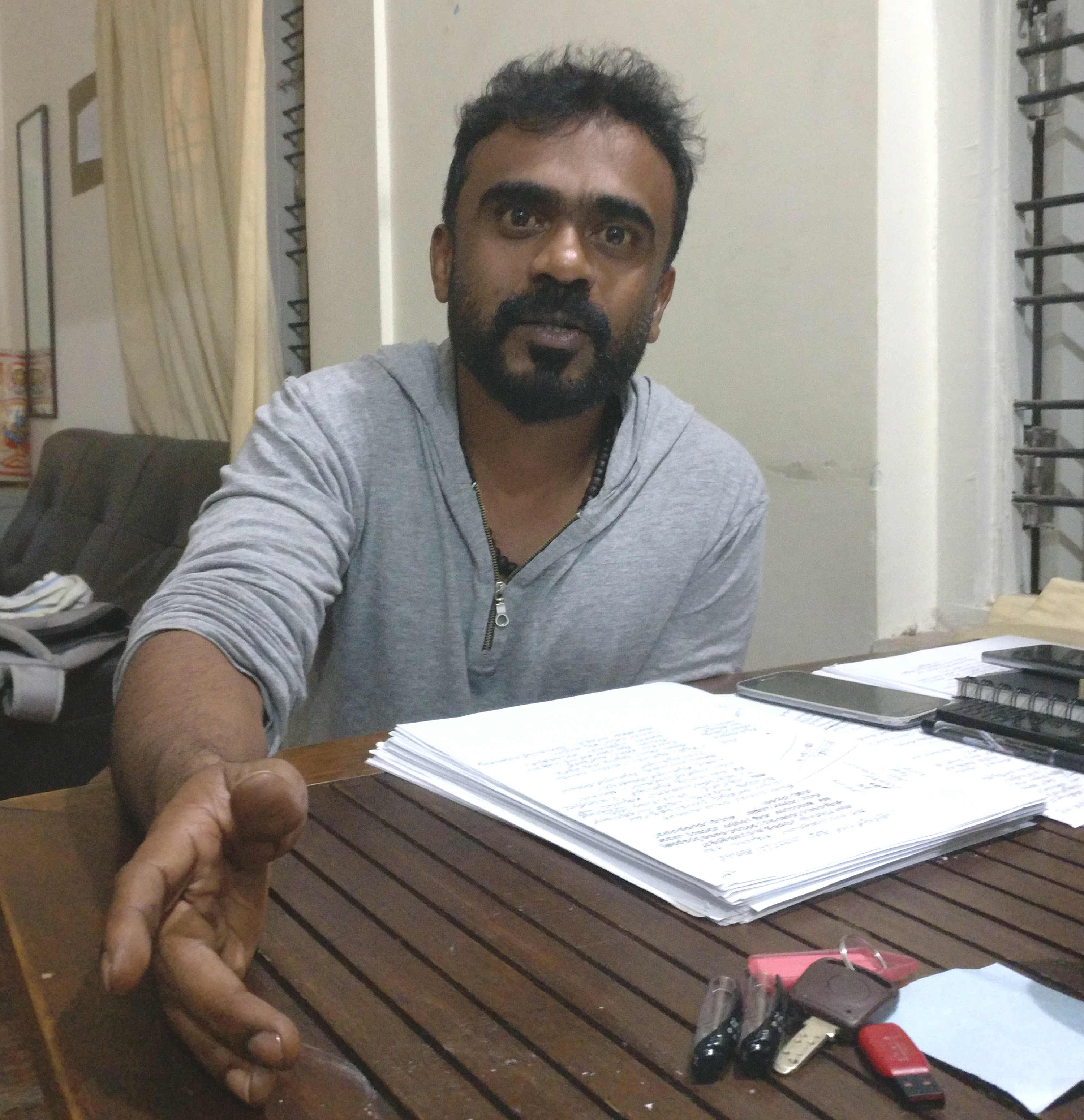 Discussing during scriptwork